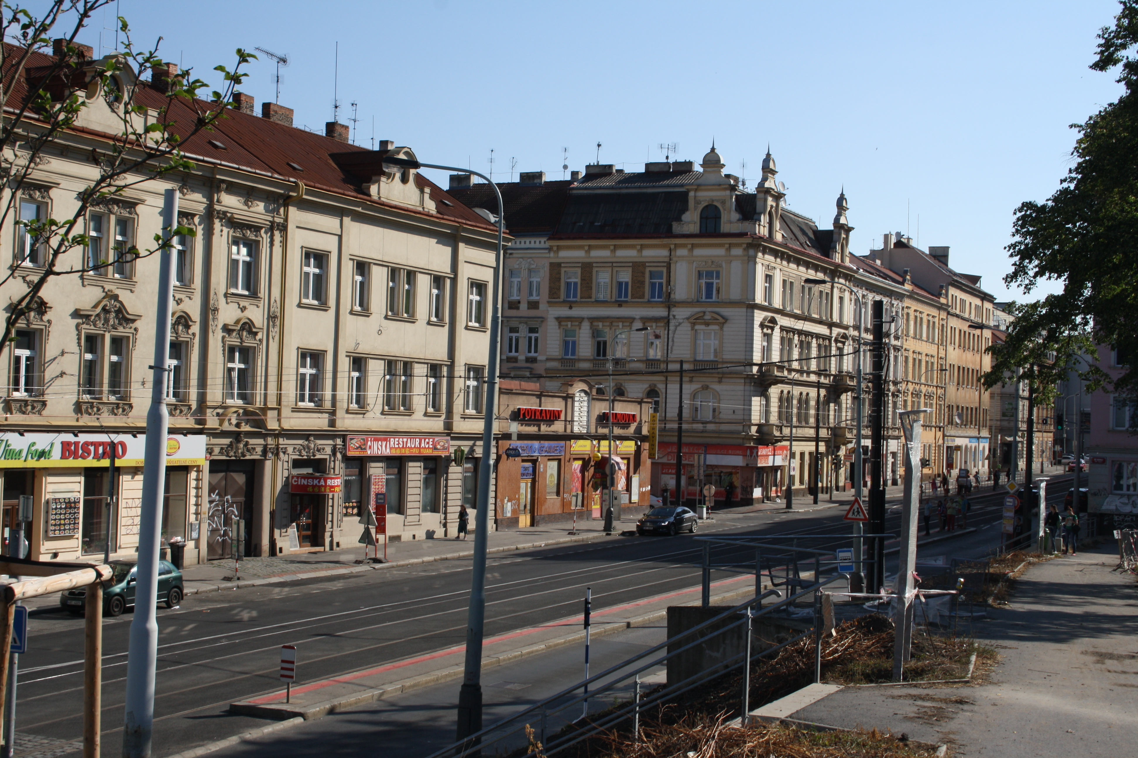 Sokolovska, view from Palmovka park, Liben, Prague, Czech republic